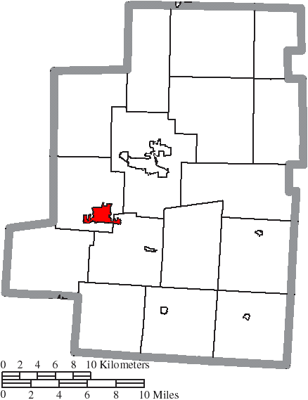 Map of the municipal and township boundaries of Morrow County, Ohio, United States, as of the 2000 census, with the location of the village of Cardington highlighted. Township borders are shown only in unincorporated areas in order to differentiate incorporated and unincorporated areas more clearly.